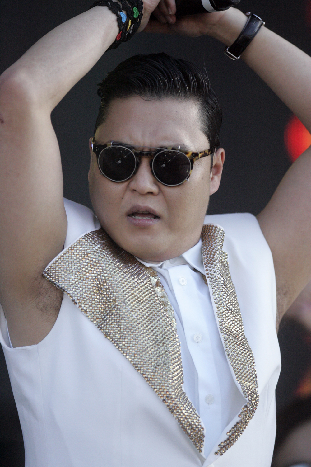 Psy performing at Future Music Festival, Randwick, Sydney, Australia 2013.